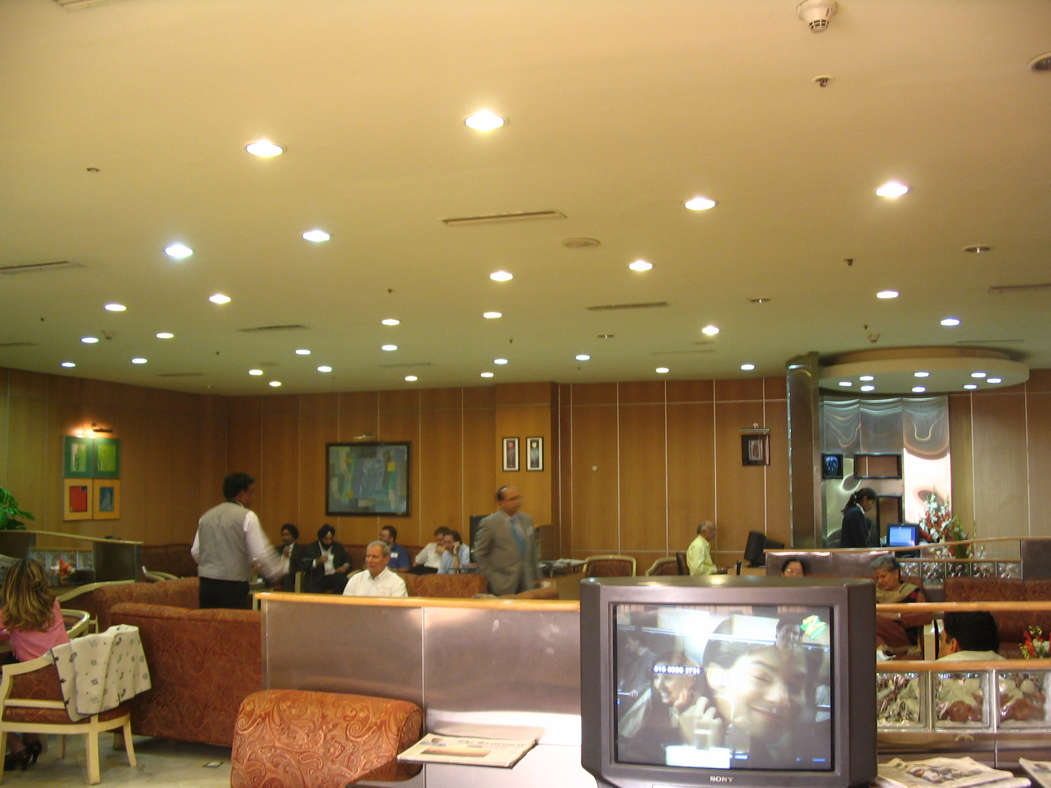 Executive lounge used by Indian in the domestic departure terminal 1A of the Indira Gandhi International Airport, New Delhi, India